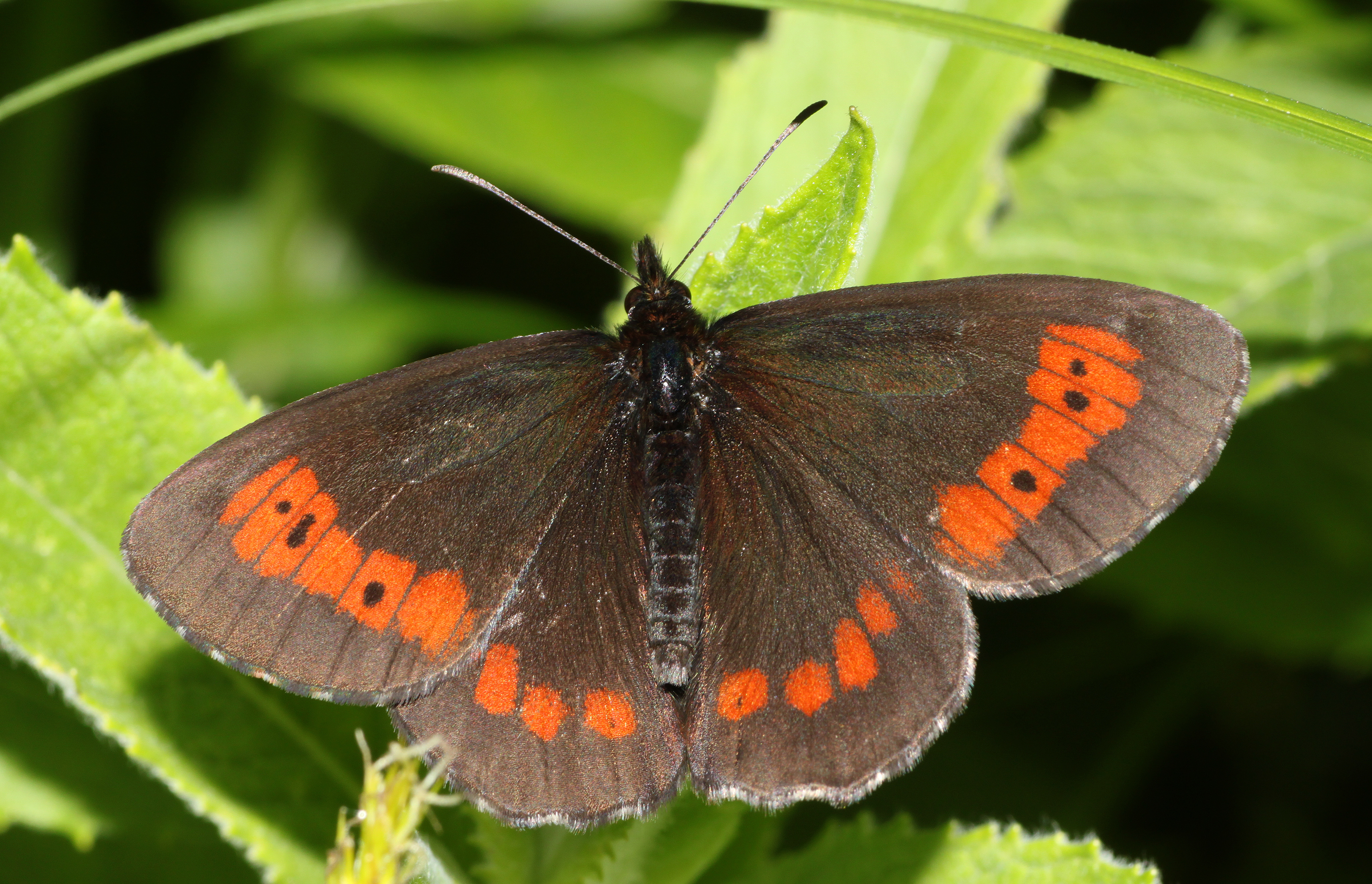 Large Ringlet, Erebia euryale, Family: Nymphalidae, Location: Slovenia, Bled